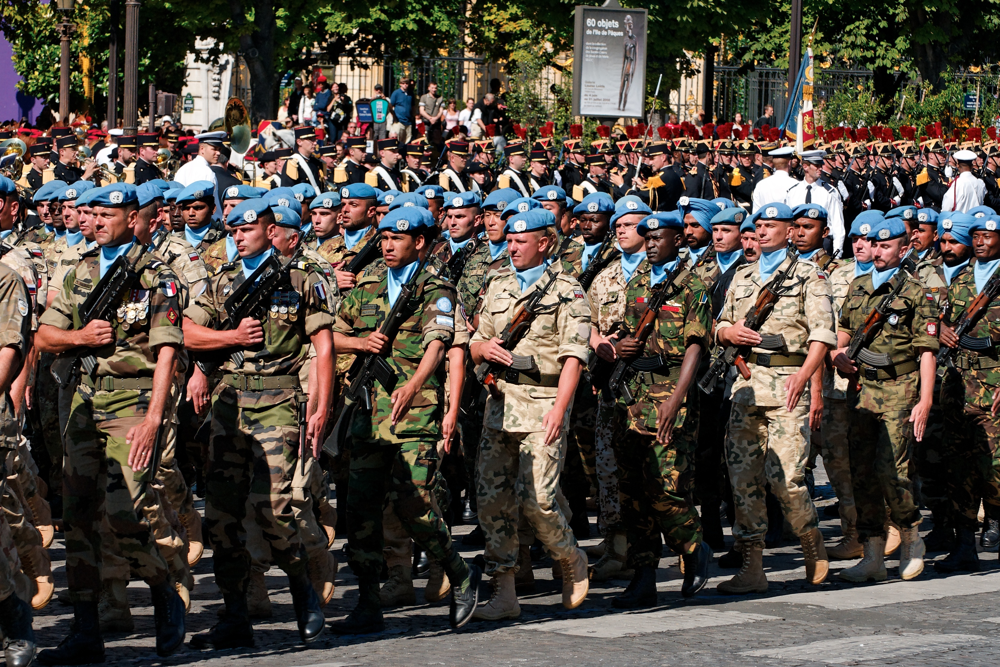 The UN battalion leading the parade during the Bastille Day 2008 military parade on the Champs-Élysées, Paris. In thr background, the 1st Infantry Regiment and the orchestra of the Republican Guard.